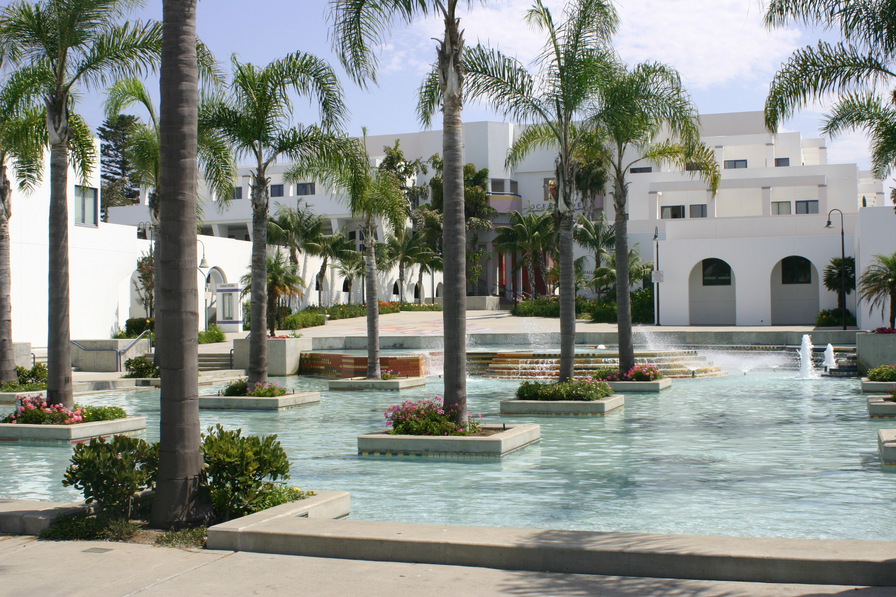 The Oceanside City Hall complex — Oceanside, Southern California.